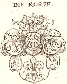 Coat of arms of the german family von Korff